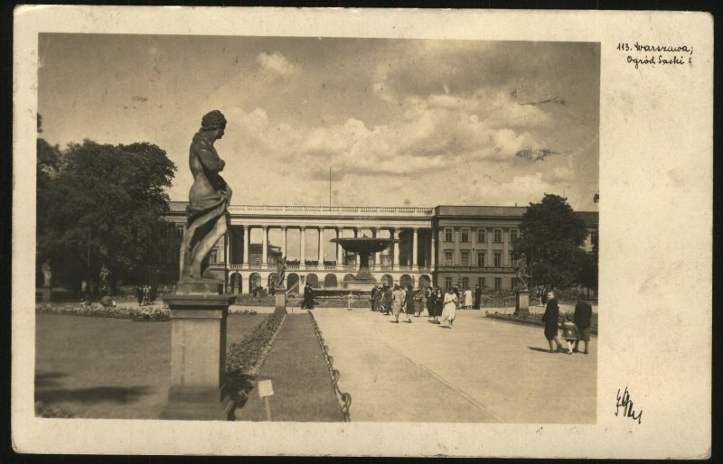 Warsaw, Saxon Garden (1933). author Franciszek Gazda. Prewar postcard, cycle Polonia Admirabilis no 113